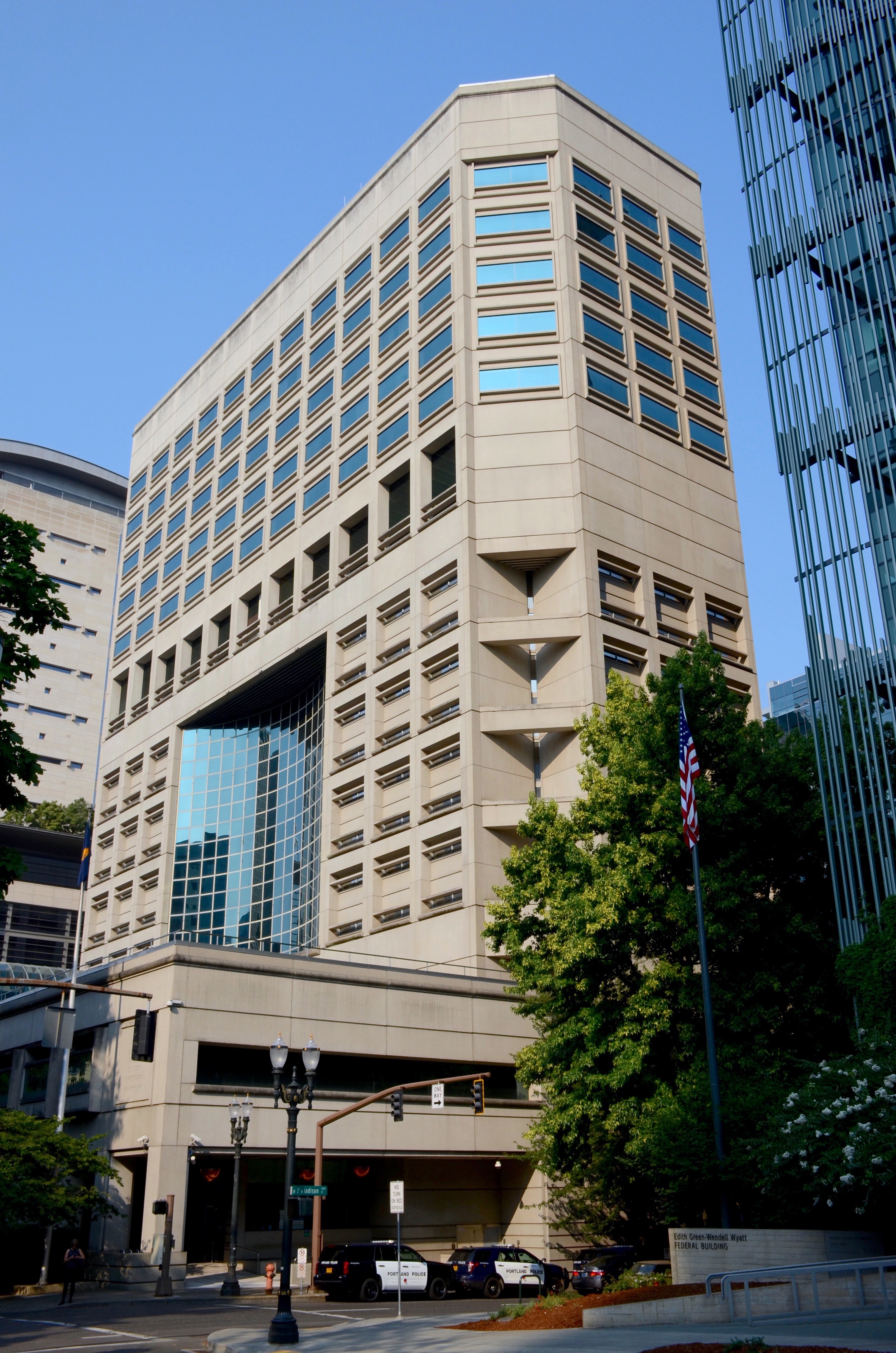 The Multnomah County Justice Center, in downtown Portland, Oregon, viewed from the west-southwest, across the intersection of 3rd Avenue and Madison Street.